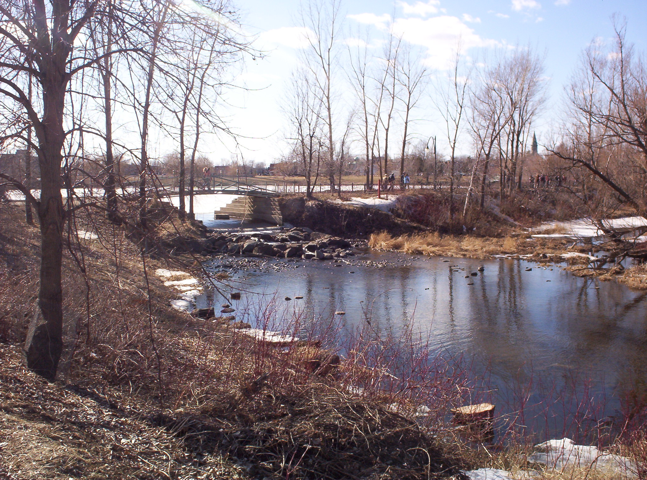 Summary: The "Parc des Rapides" near the Lachine rapids in Montreal, Québec Author: Colocho Date: March 26th, 2006